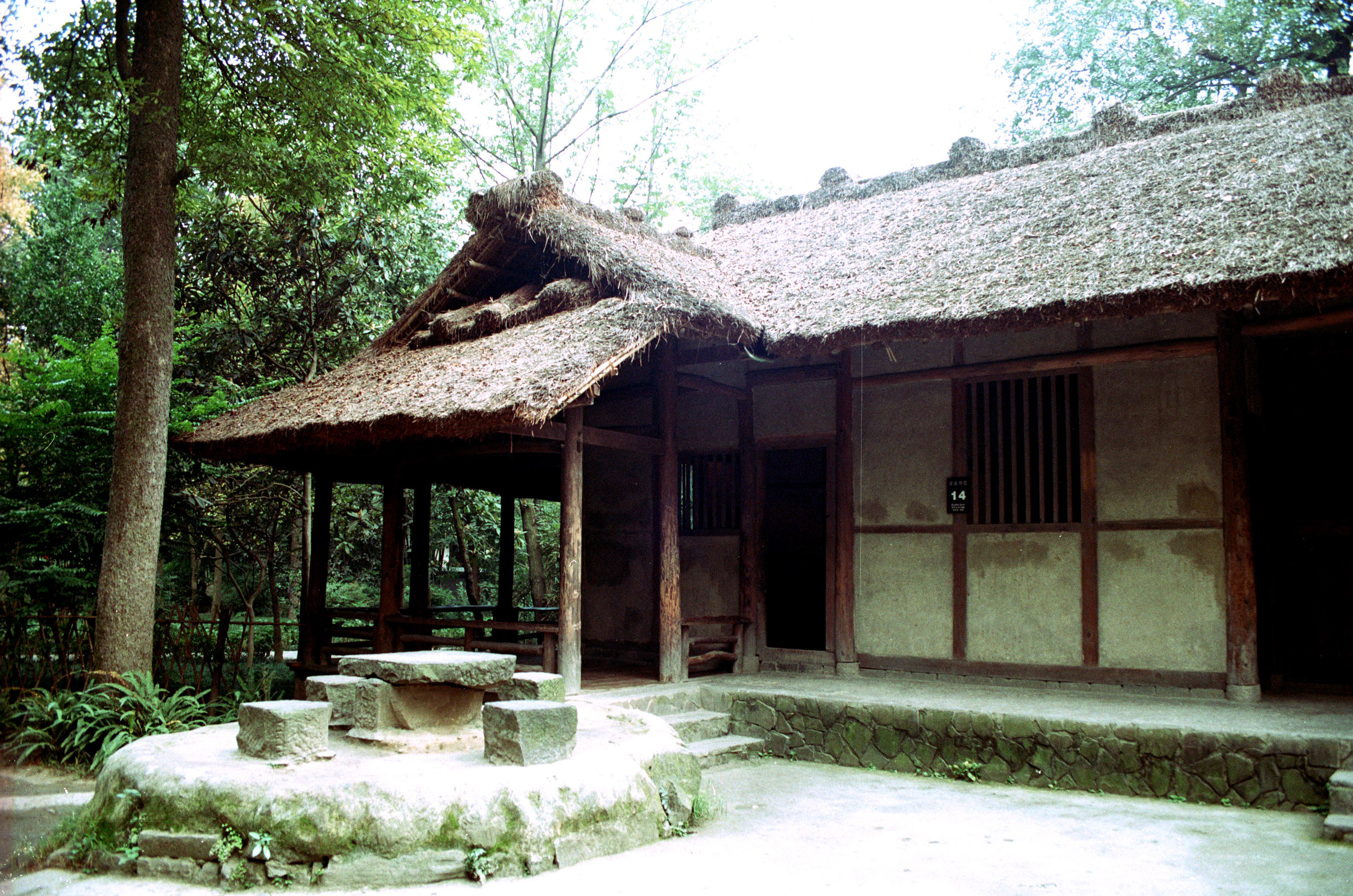 成都杜甫草堂故居; The thatched hut of Du Fu